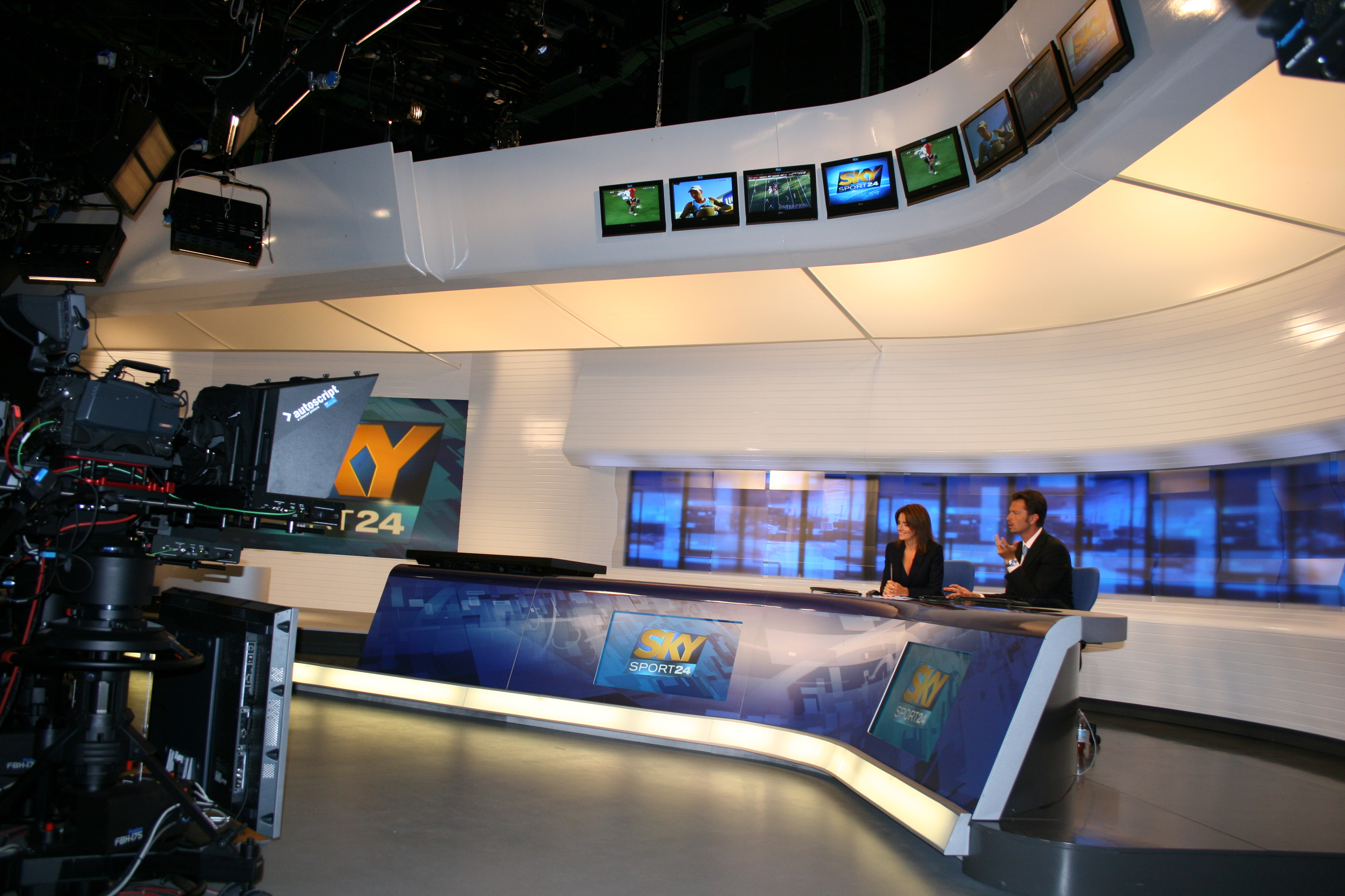 SKY Sport 24 news channel studio in Italy.